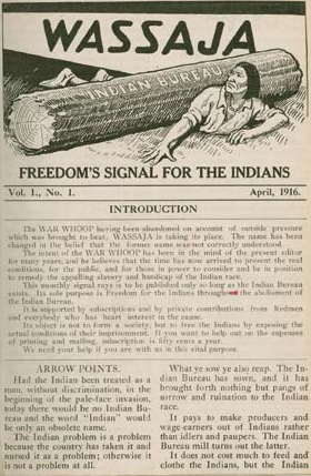 “Wassaja”: front page of “Wassaja,” April 1916, periodical published by Carlos Montezuma Other information No.